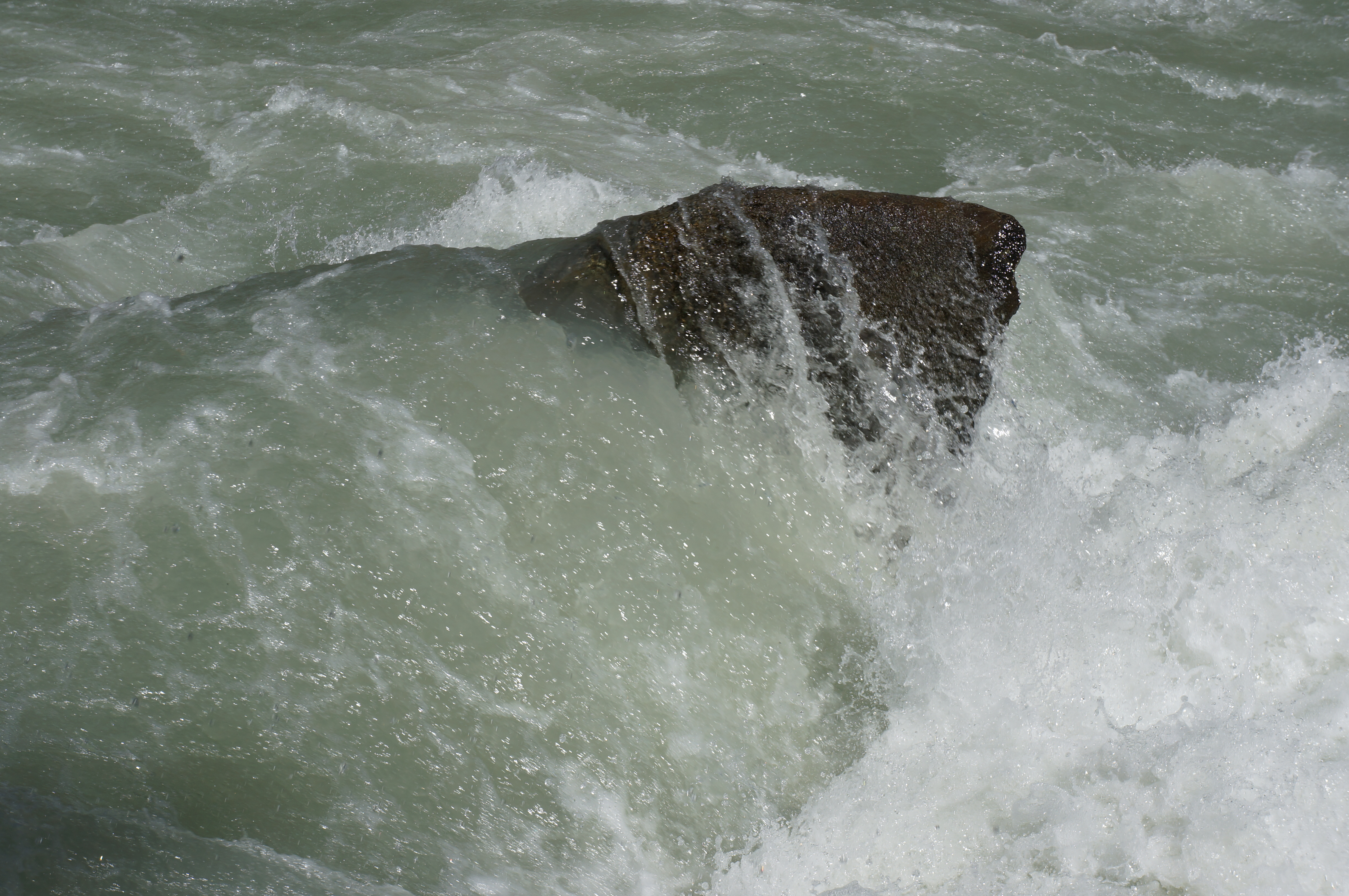 The Begemot rapid ("The Begemot's fang") on Chuya River, 5th category (Altai Republic, Russia, August 2014)